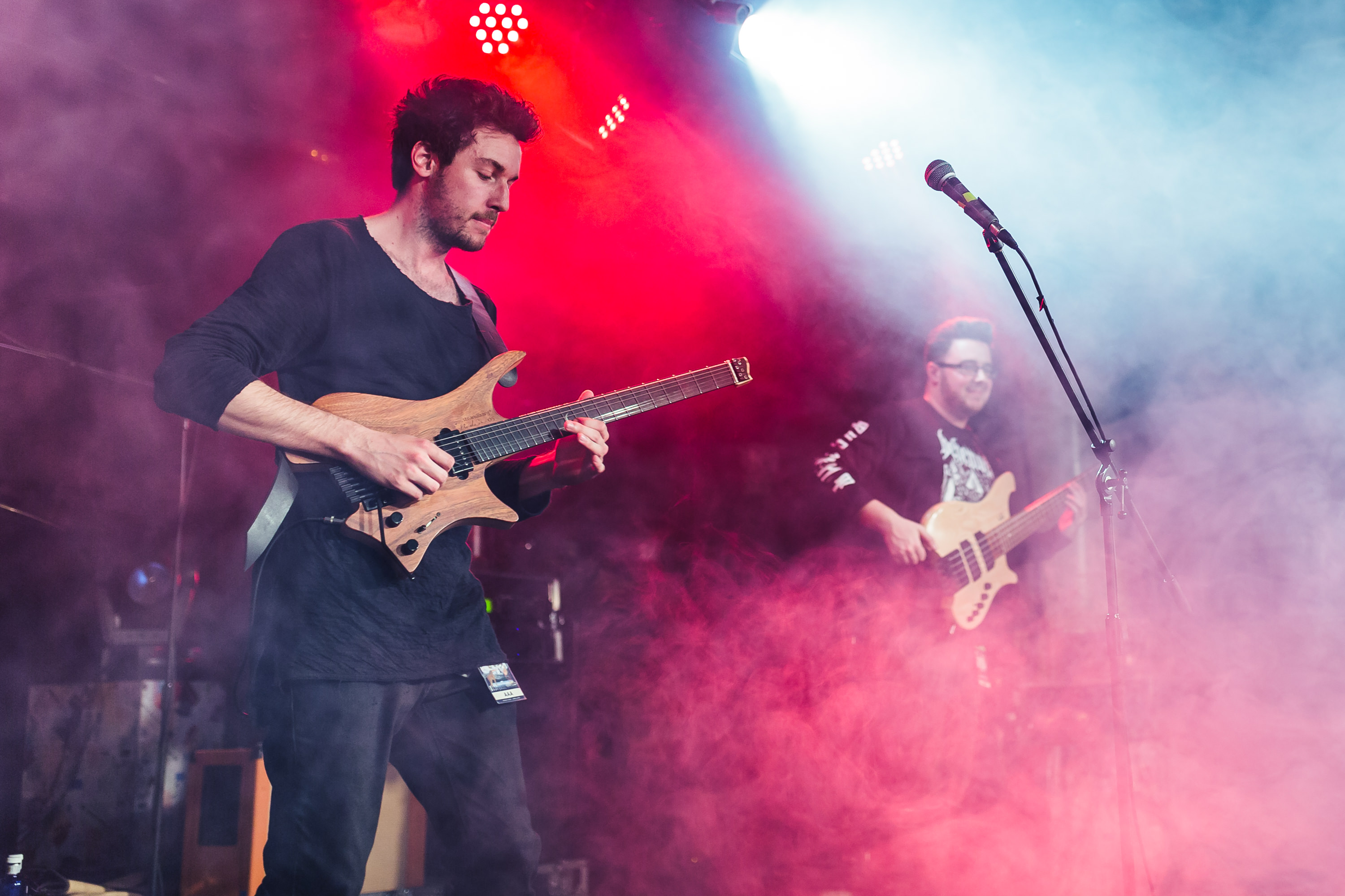 Plini on stage with Simon Grove (bass) during his European Tour.